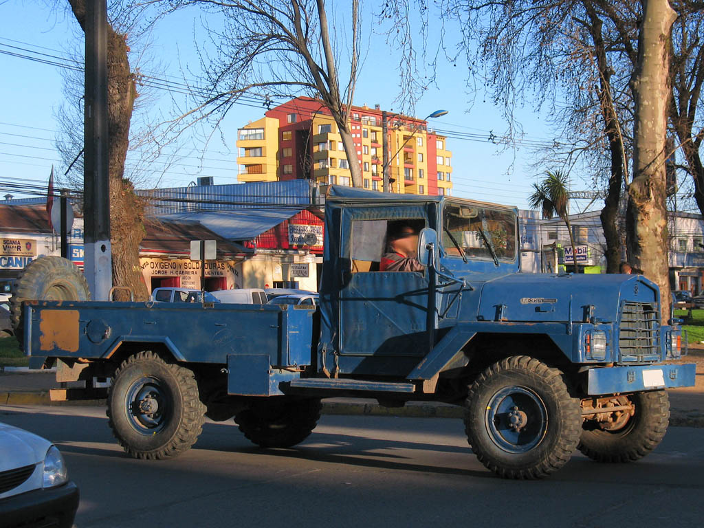 Command Car M-325 4x4 1991